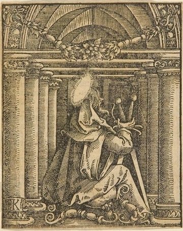 Der heilige Paul mit zwei Schwertern (St. Paul with two swords) - woodcut by Albrecht Durer's pupil Hans Springinklee